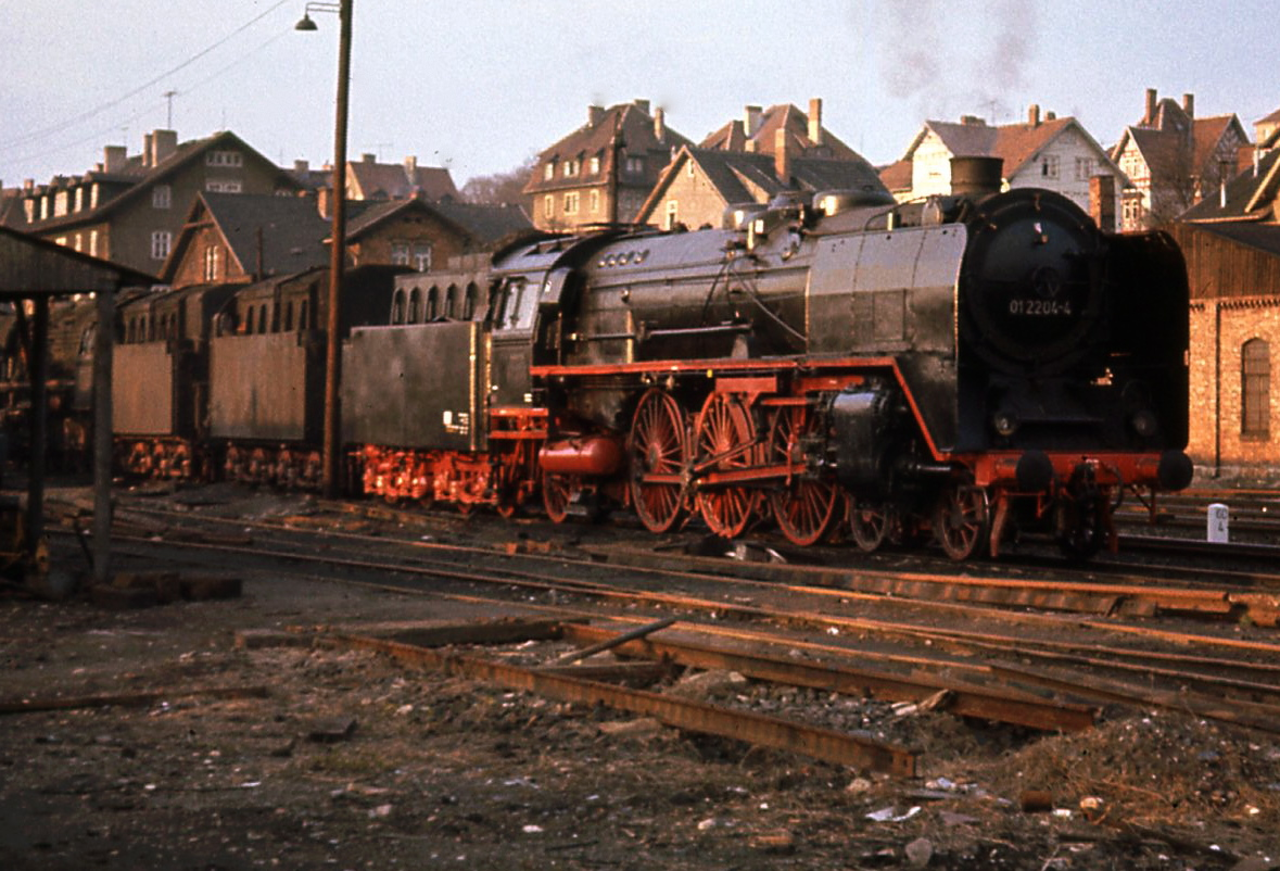 Pacific 01 2204 ex-works at Meiningen.